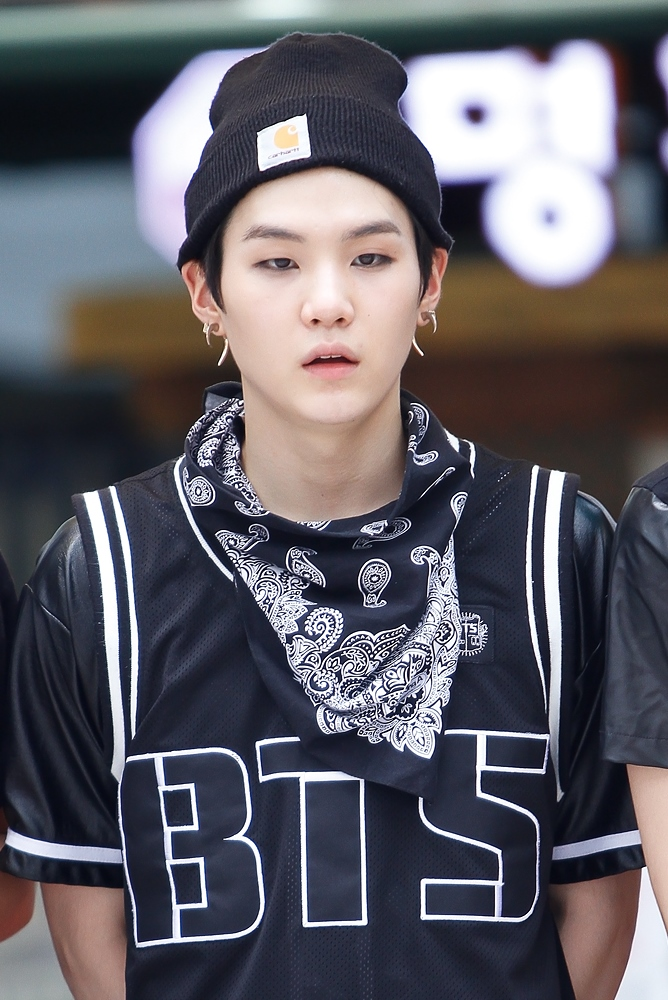 Suga at an fansign in Busan on July 27, 2013.